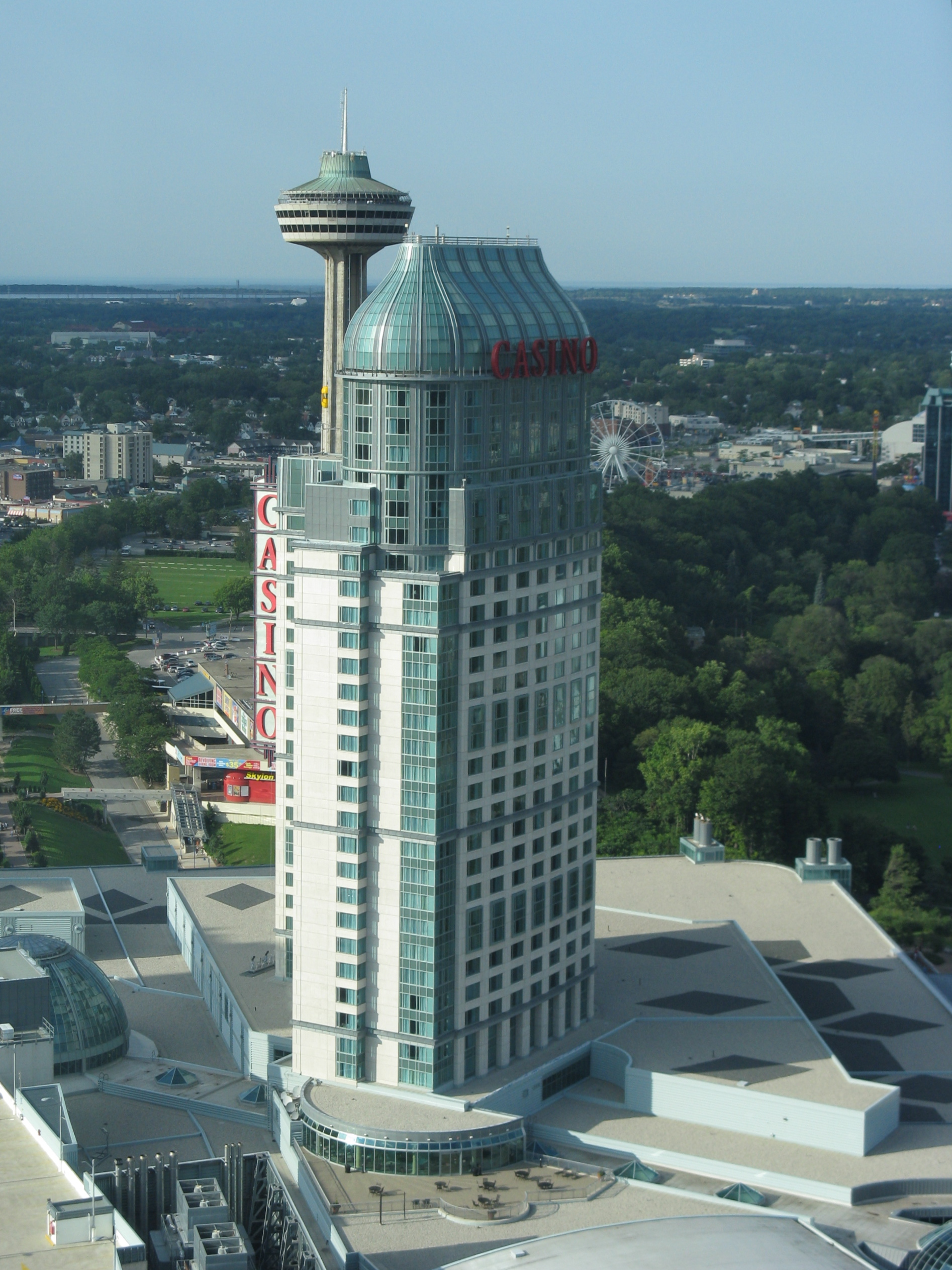 Fallsview Casino Resort in Niagara Falls, Canada with the Skylon Tower in the background.